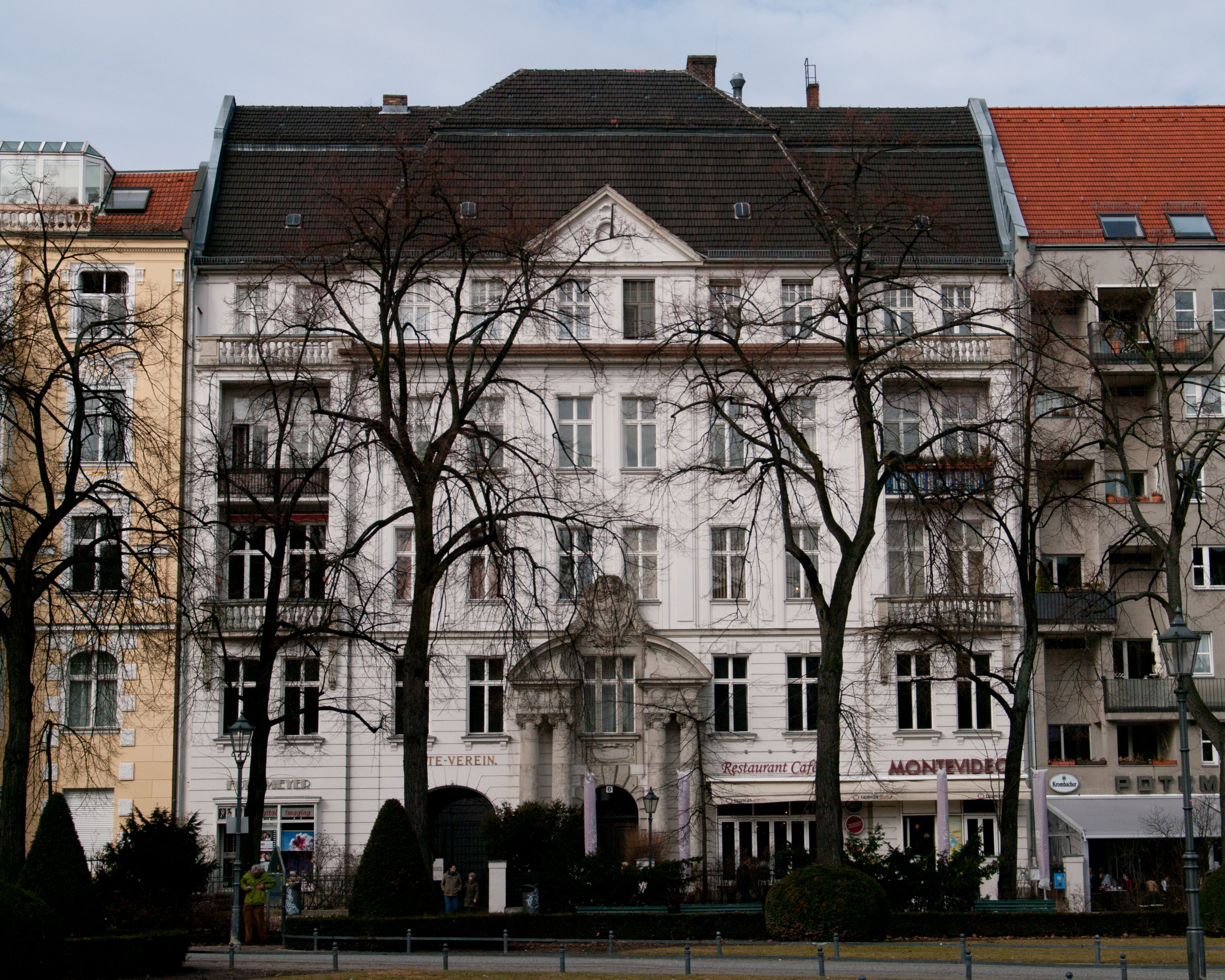 House of the Letteverein at Viktoria-Luise-Platz, Berlin-Schöneberg